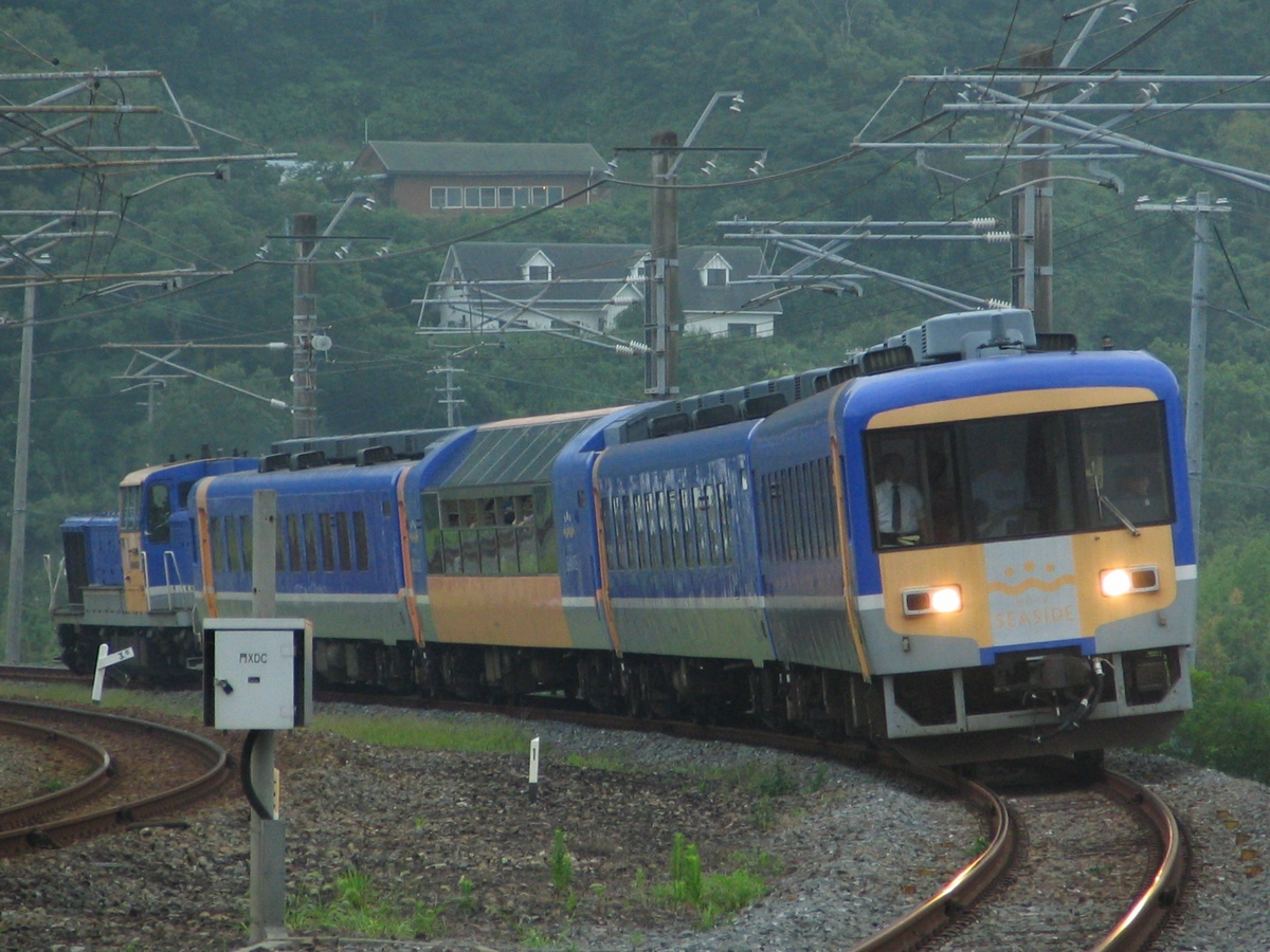 国鉄（JR西日本）12系きのくにシーサイドTYPE-12 runs in West Japan Railway company.